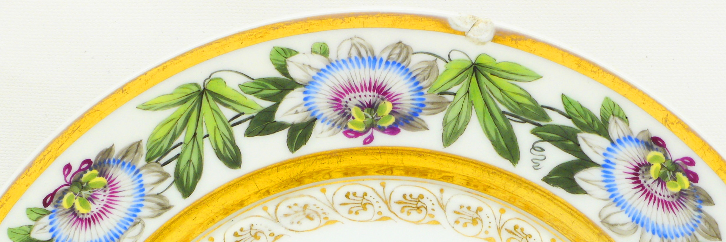 decor frieze of flowers KPM Berlin, 1837-1844